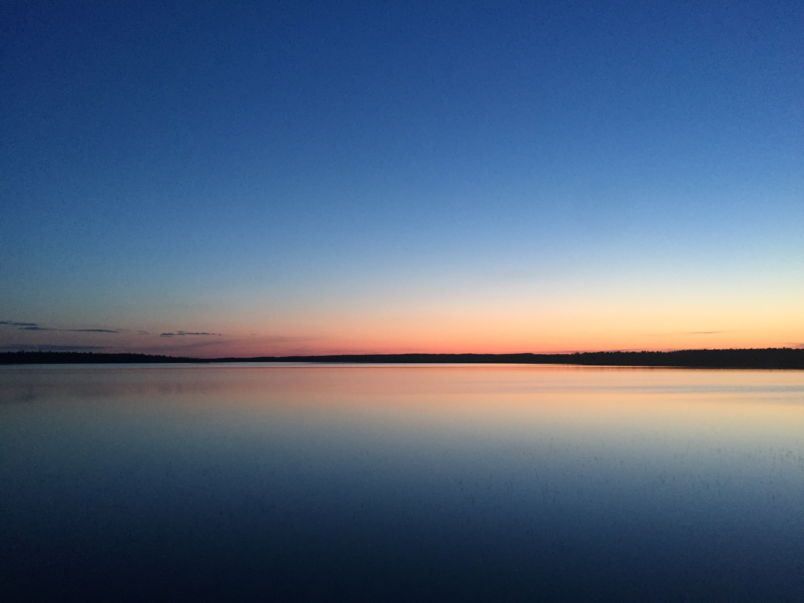 Lake Steamboat picture by Daniel Devault